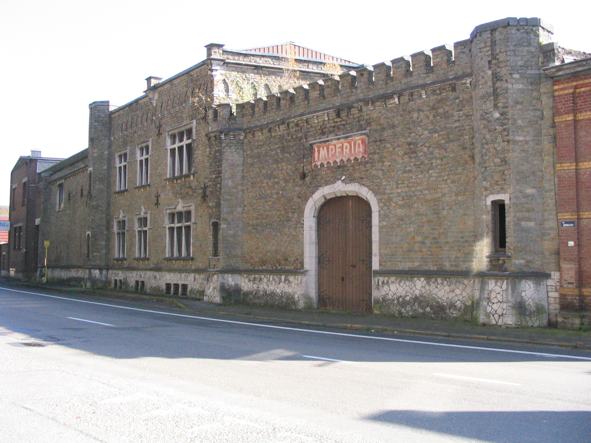 Imperia (cars) factory Nessonvaux